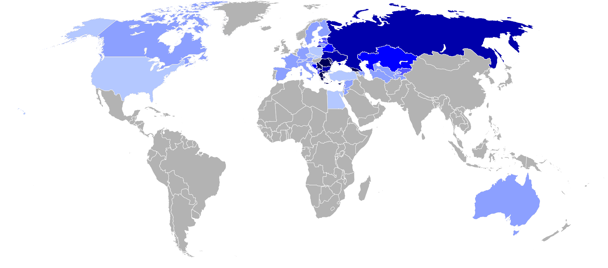 Distribution of Eastern Orthodox Christians in the world by country more than 75% 50% - 75% 20% - 50% 5% - 20% 1% - 5% below 1%, but has local autocephaly